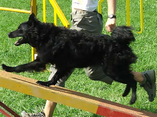 Croatian Sheepdog Mawlch Gera - on agility